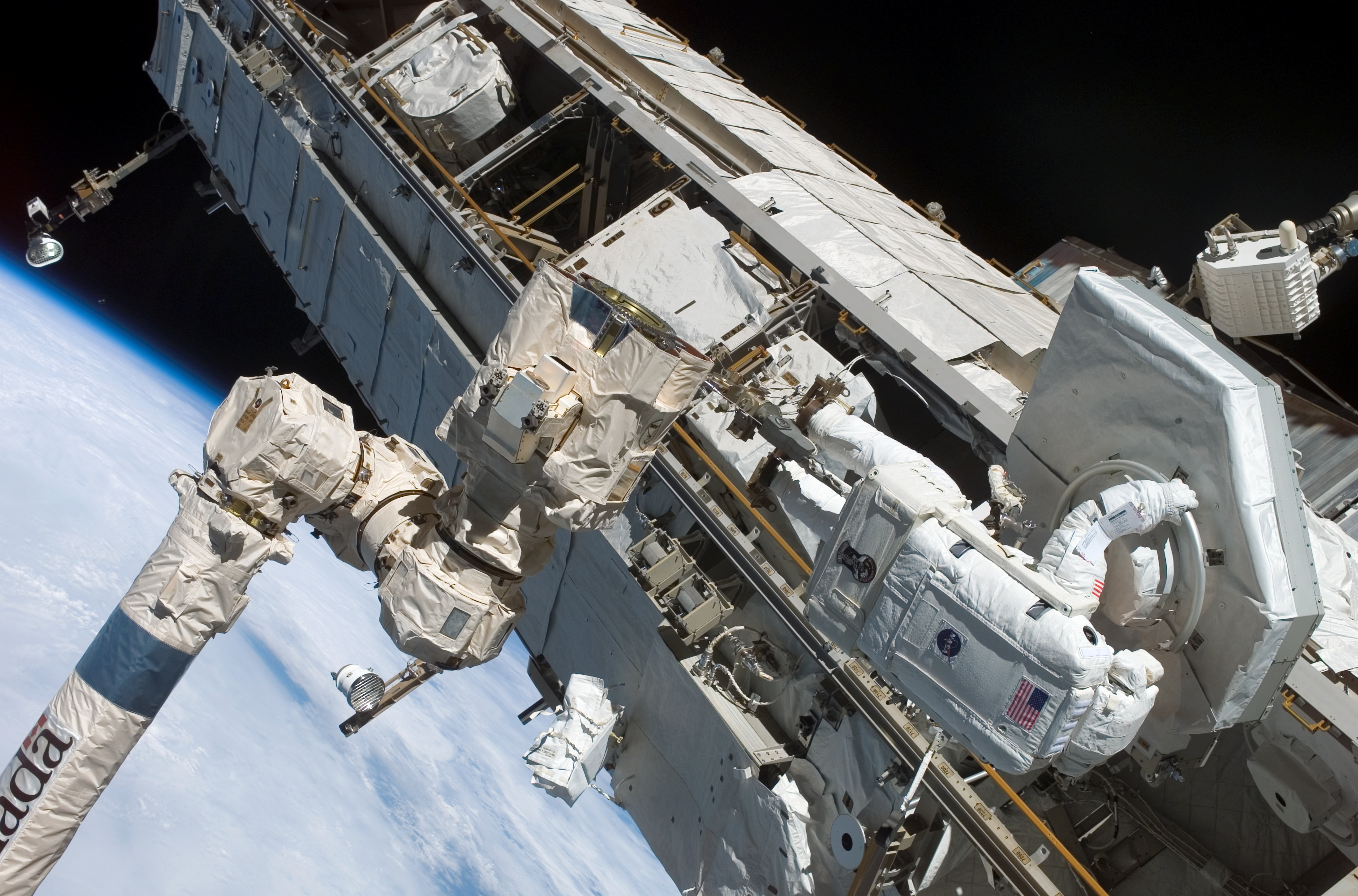 Astronauts Michael E. Fossum and Piers J. Sellers (out of frame), STS-121 mission specialists, install the new trailing umbilical system in the mobile transporter on the International Space Station during the mission's second session of extravehicular activity (EVA).